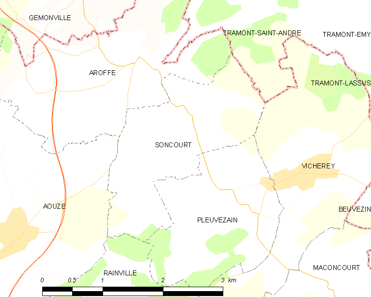 Map of French municipality Soncourt